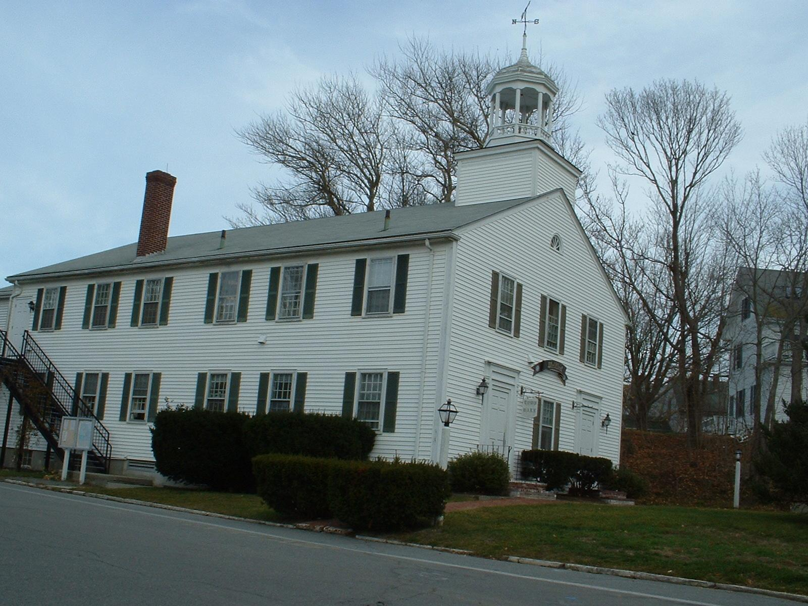 Wellfleet Town Hall, Wellfleet, Massachusetts